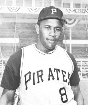 Professional baseball player Willie Stargell